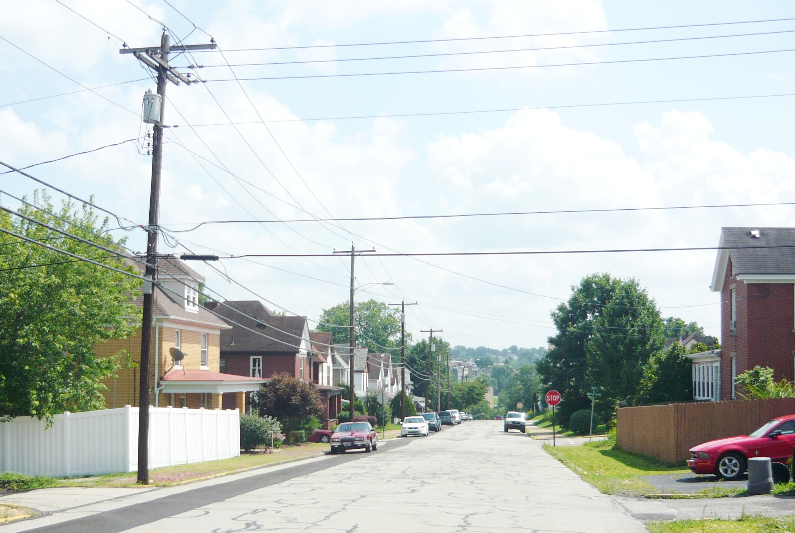 First Street (at Lincoln Avenue), Borough of North Irwin, Westmoreland County, Pennsylvania.